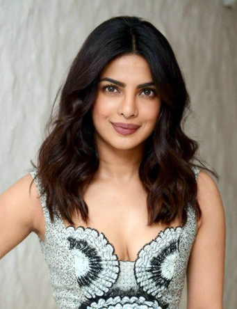 Priyanka Chopra at Olive Bar and Kitchen in December 2016